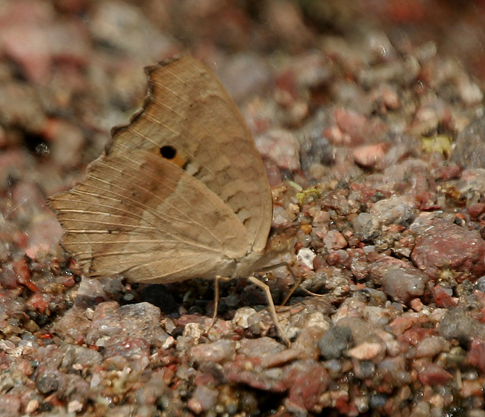 Lemon Pansy Junonia lemonias in Kawal Wildlife Sanctuary, Andhra Pradesh, India.